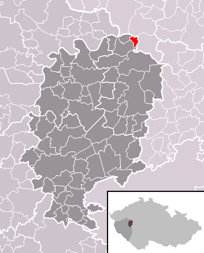 Location of Čilá municipality within Rokycany District and within identical administrative area of Rokycany as a Municipality with Extended Competence.